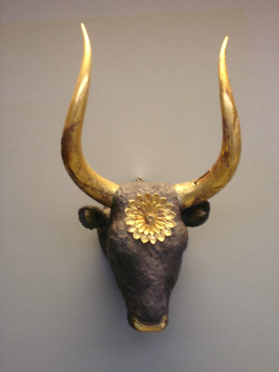 Silver mycaenean vase (rhtyon) shaped as a bull head, in the National Archaeological Museum in Athens.